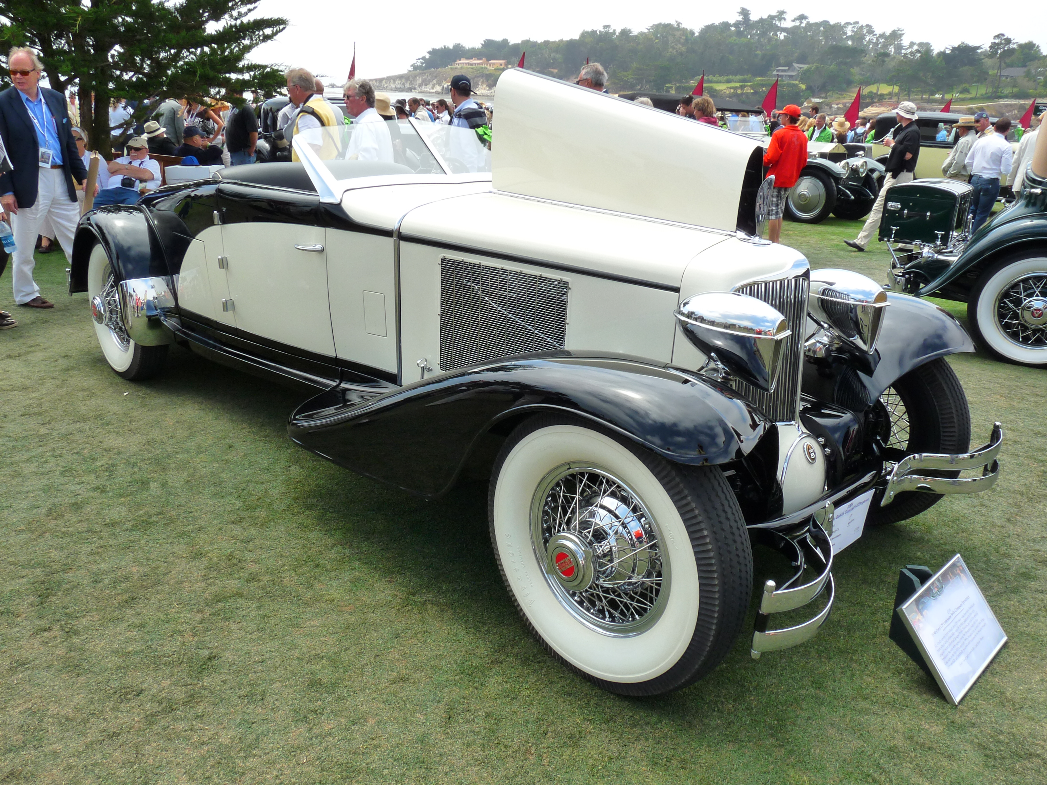 1930 Cord L29 Limousine Body Company Speedster; Design by Brooks Stevens